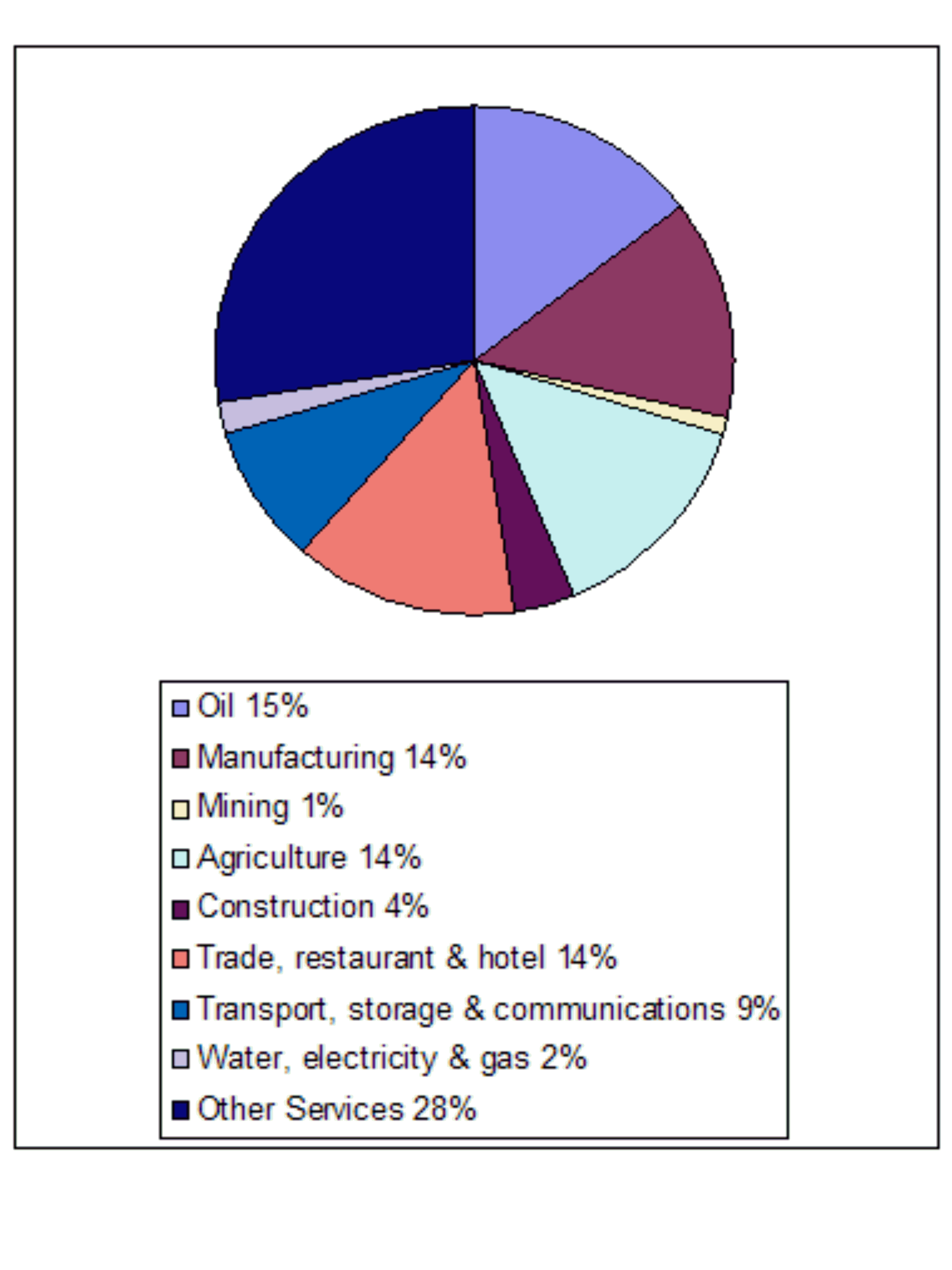 Sectors of the Iranian Economy for 2002. I created this file by using Microsoft Excel. Source for raw data: Statistical Center of Iran [dead link]